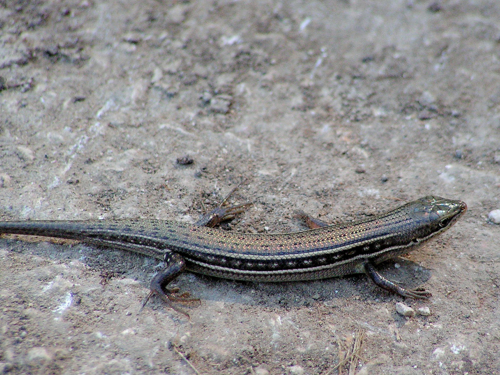 Bridled Mabuya. The photo was taken in northern Israel.